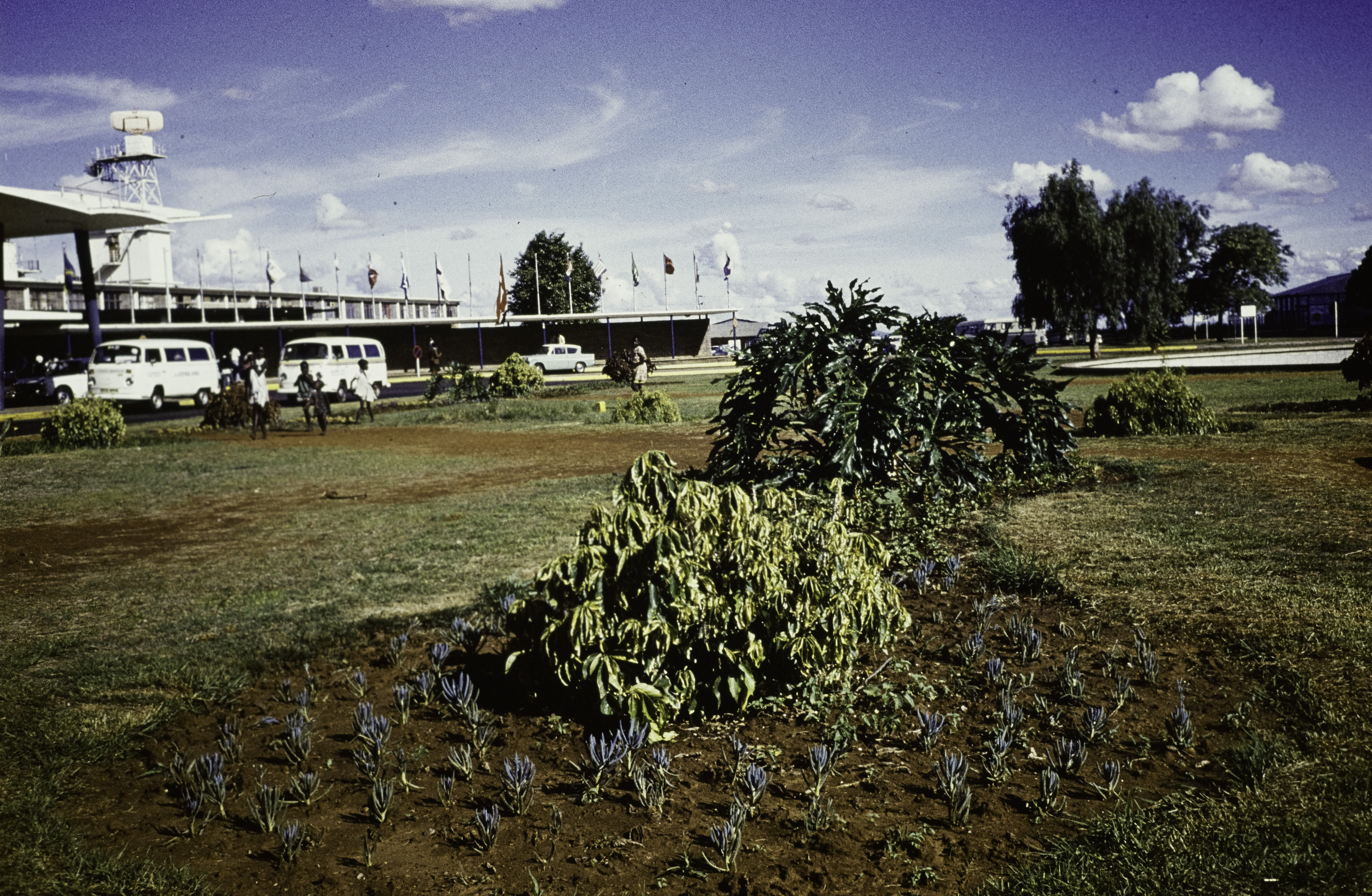 Embakasi Airport (later Jomo Kenyatta International Airport), Kenya. The lawn of the airport with vans.